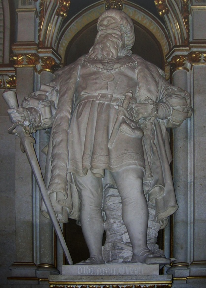 Photograph of a sculpture of Wolfgang Treu, mayor of Vienna